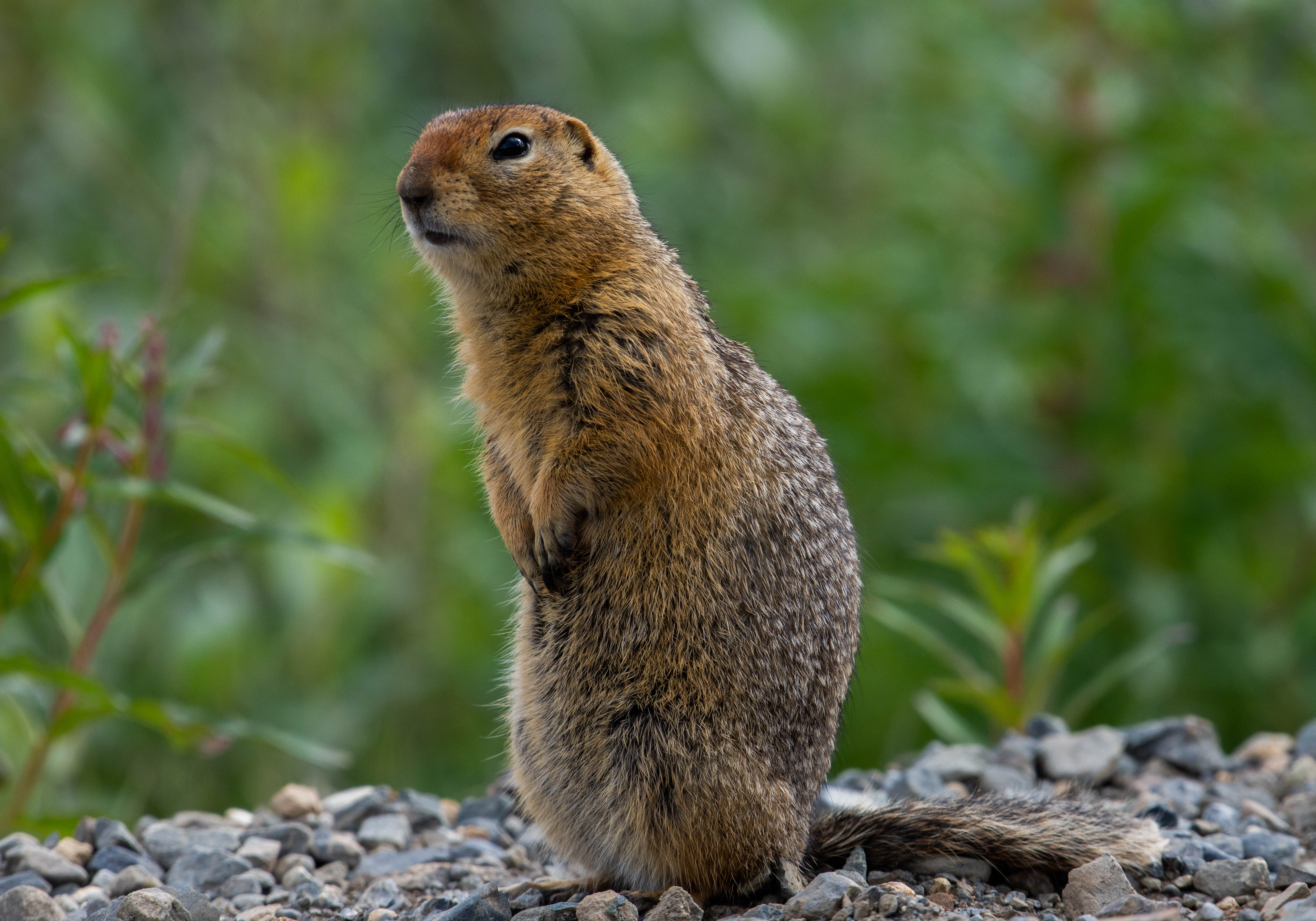 An Arctic ground squirrel Keywords: arctic ground squirrel; wildlife